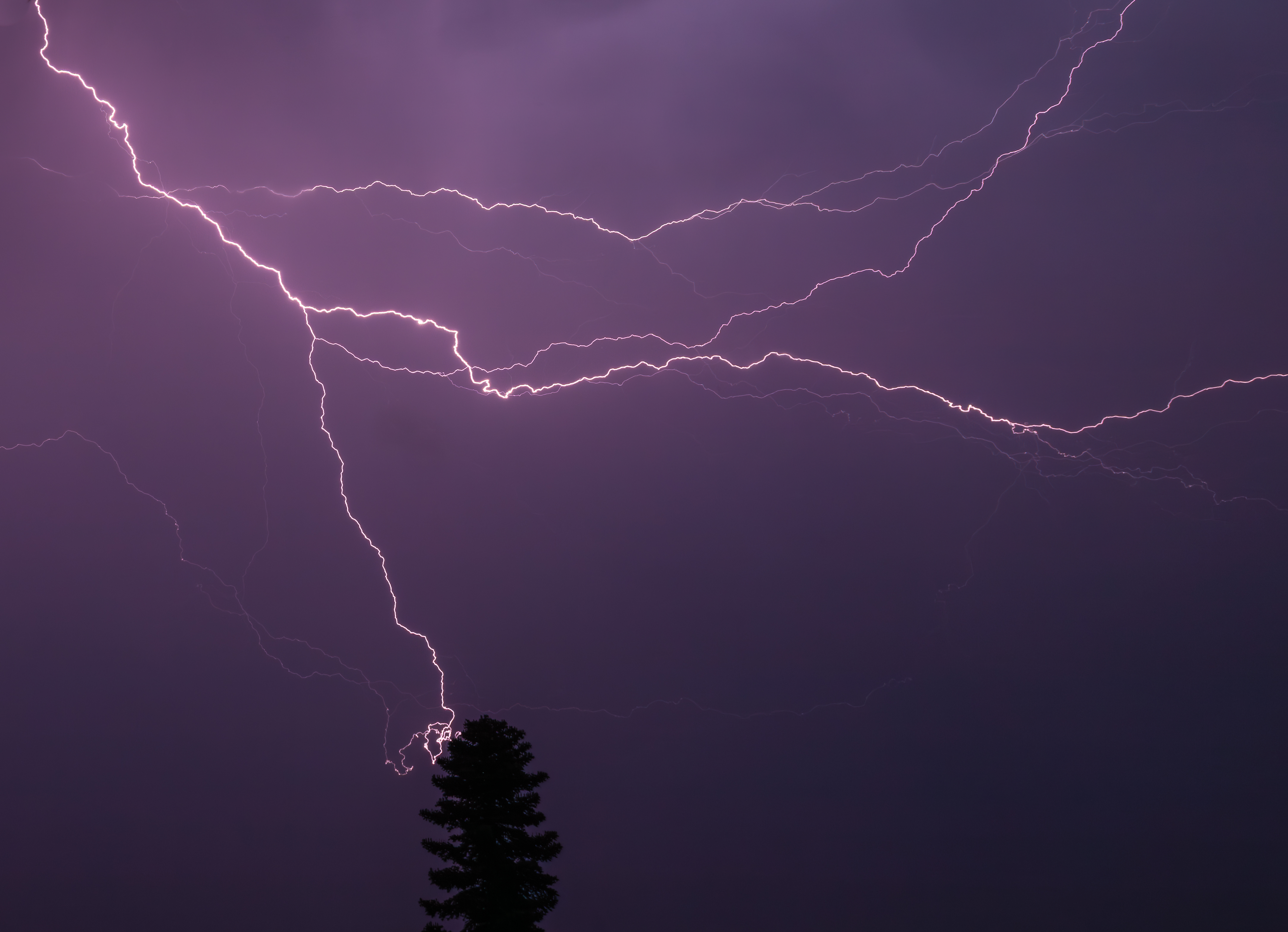 Lightning strike in conifer